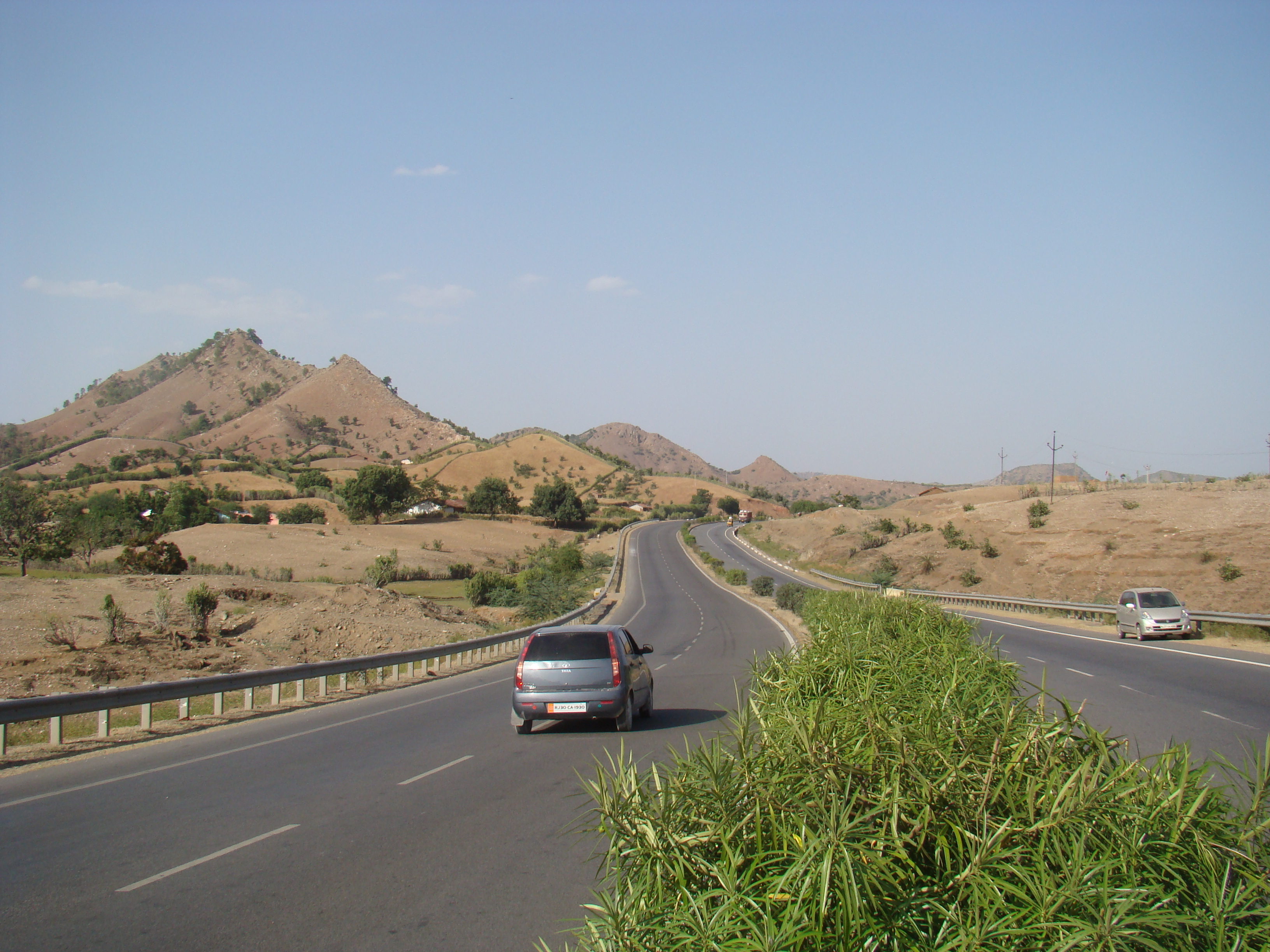 NH 8 between Himmatnagar, Gujrat and Udaipur.